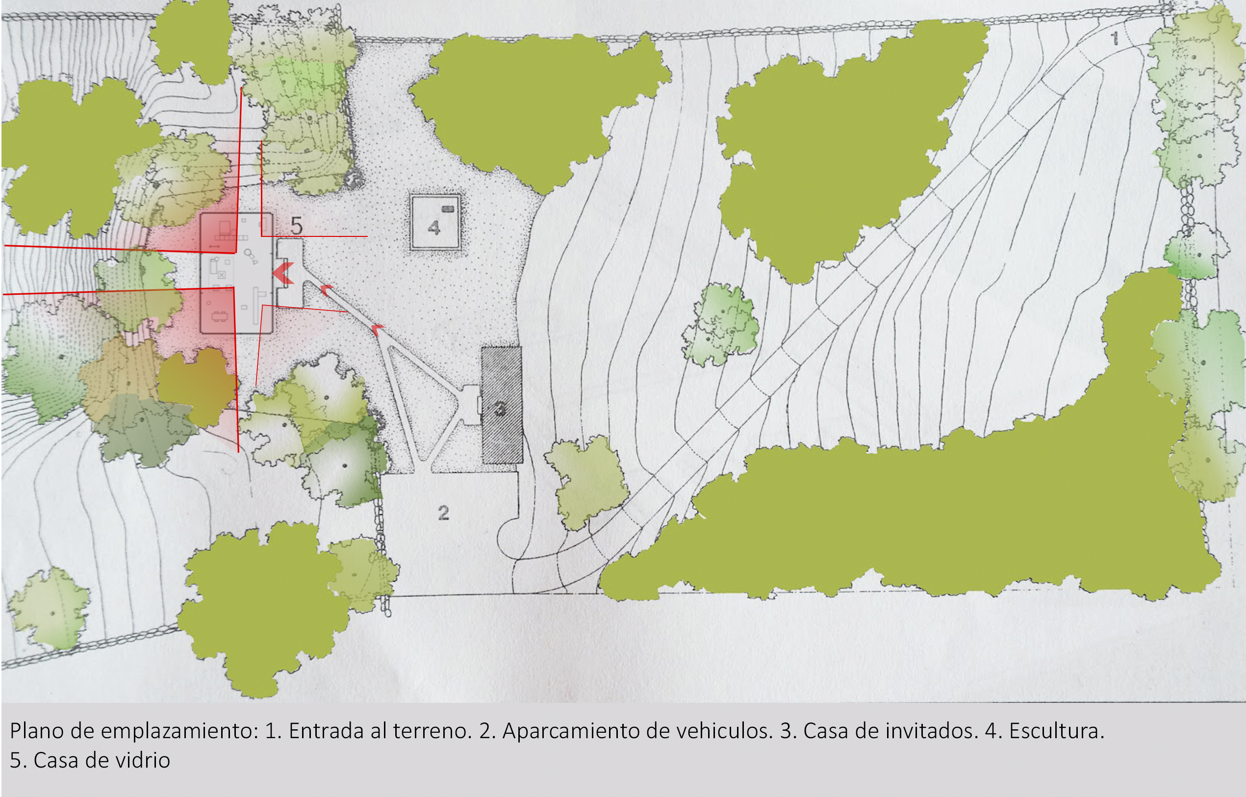 this is the location